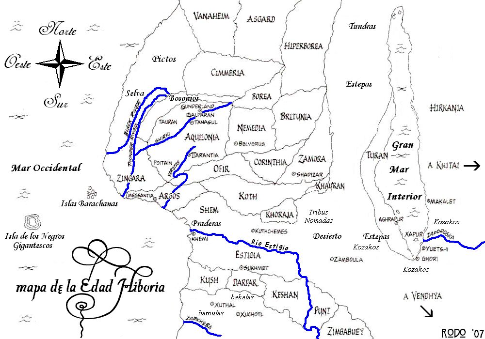 Map of the Hyborian Age, based on the work of Robert E. Howard. Captions in Spanish.